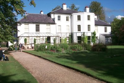 Down House. Photo by Richard Carter